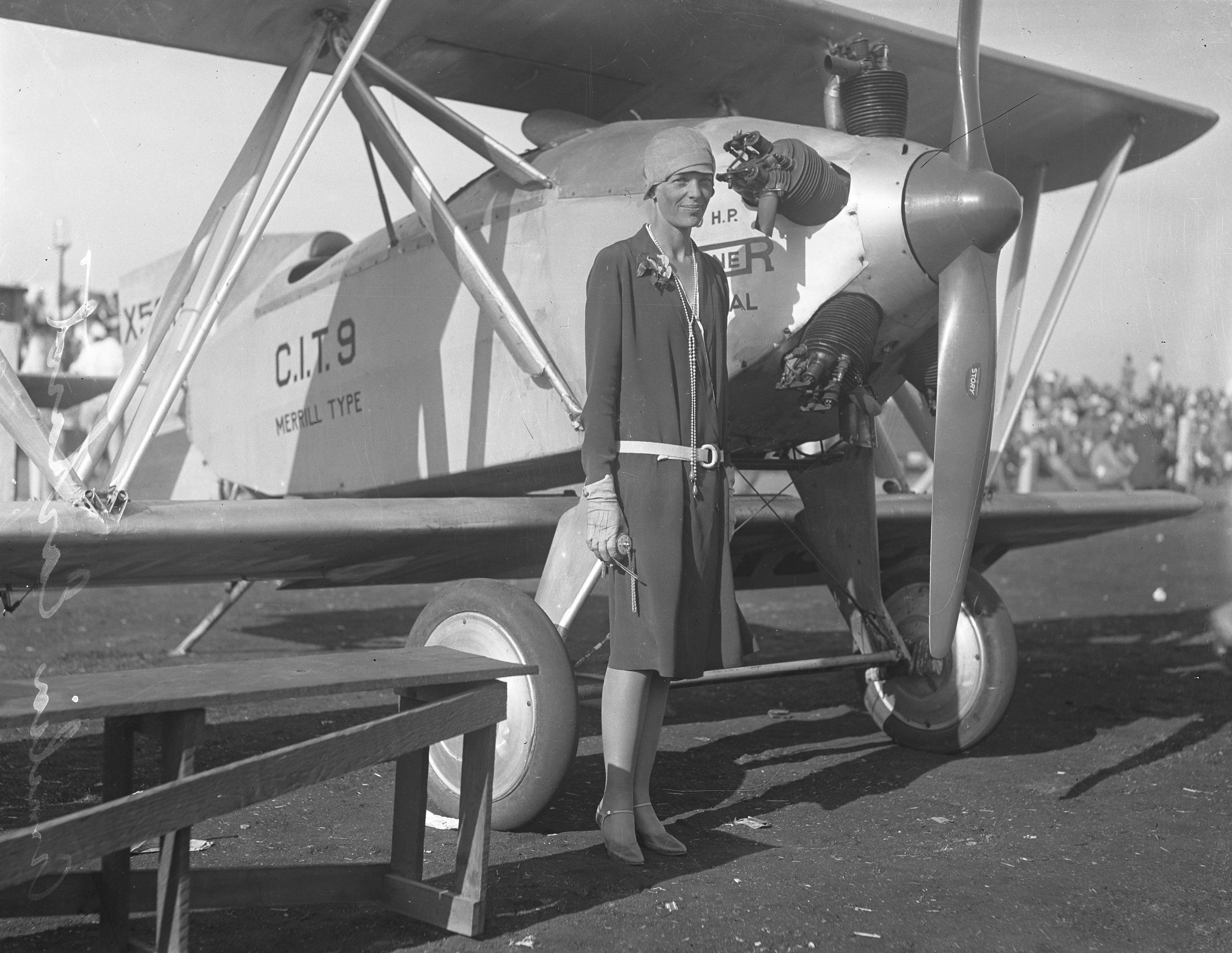 Title: Amelia Earhart — wearing a dress, standing beside a Merrill CIT-9 Safety Plane, circa 1928.